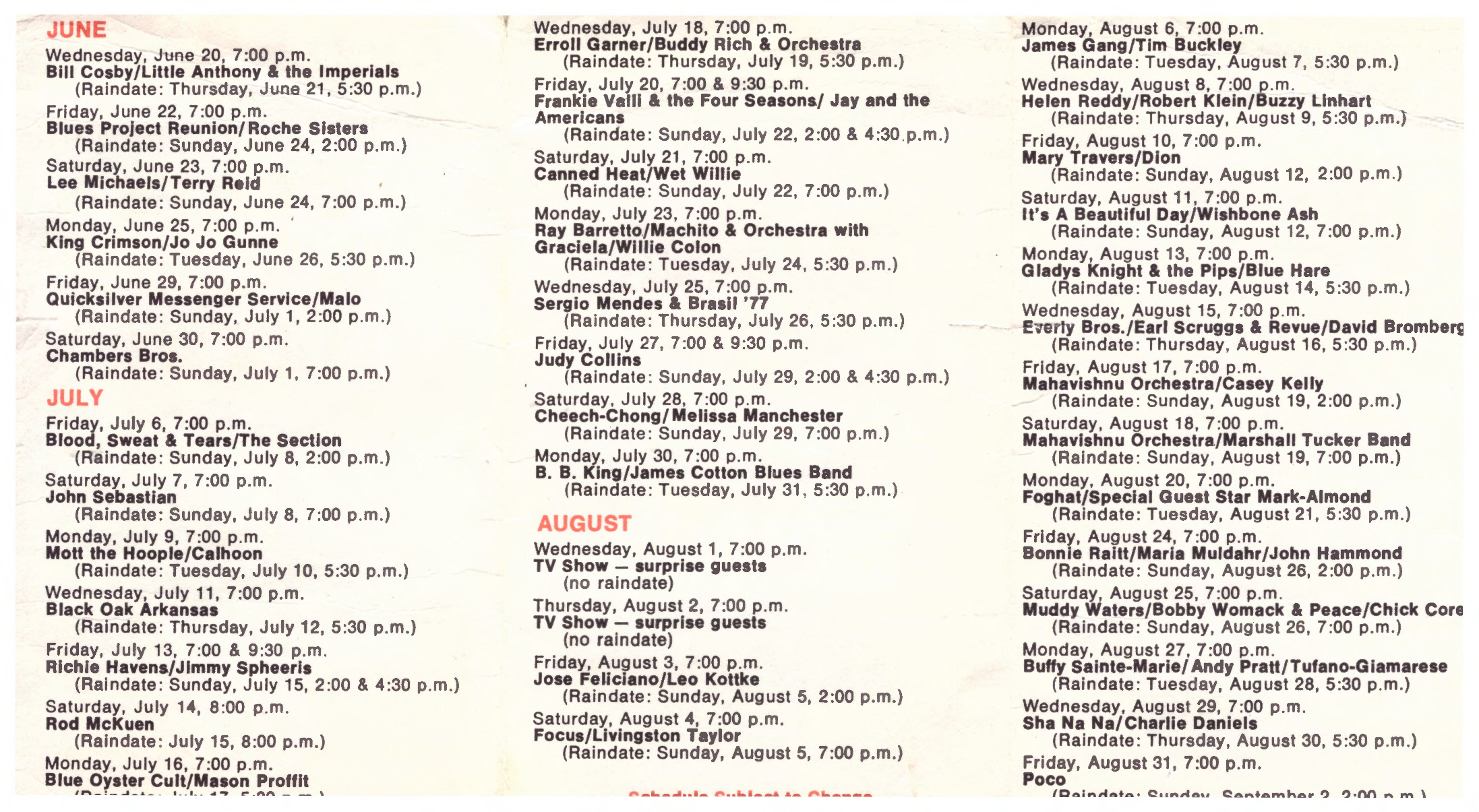 Schaefer Music Festival 1973 Schedule 2 of 2